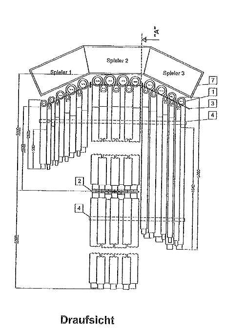 construction sketch